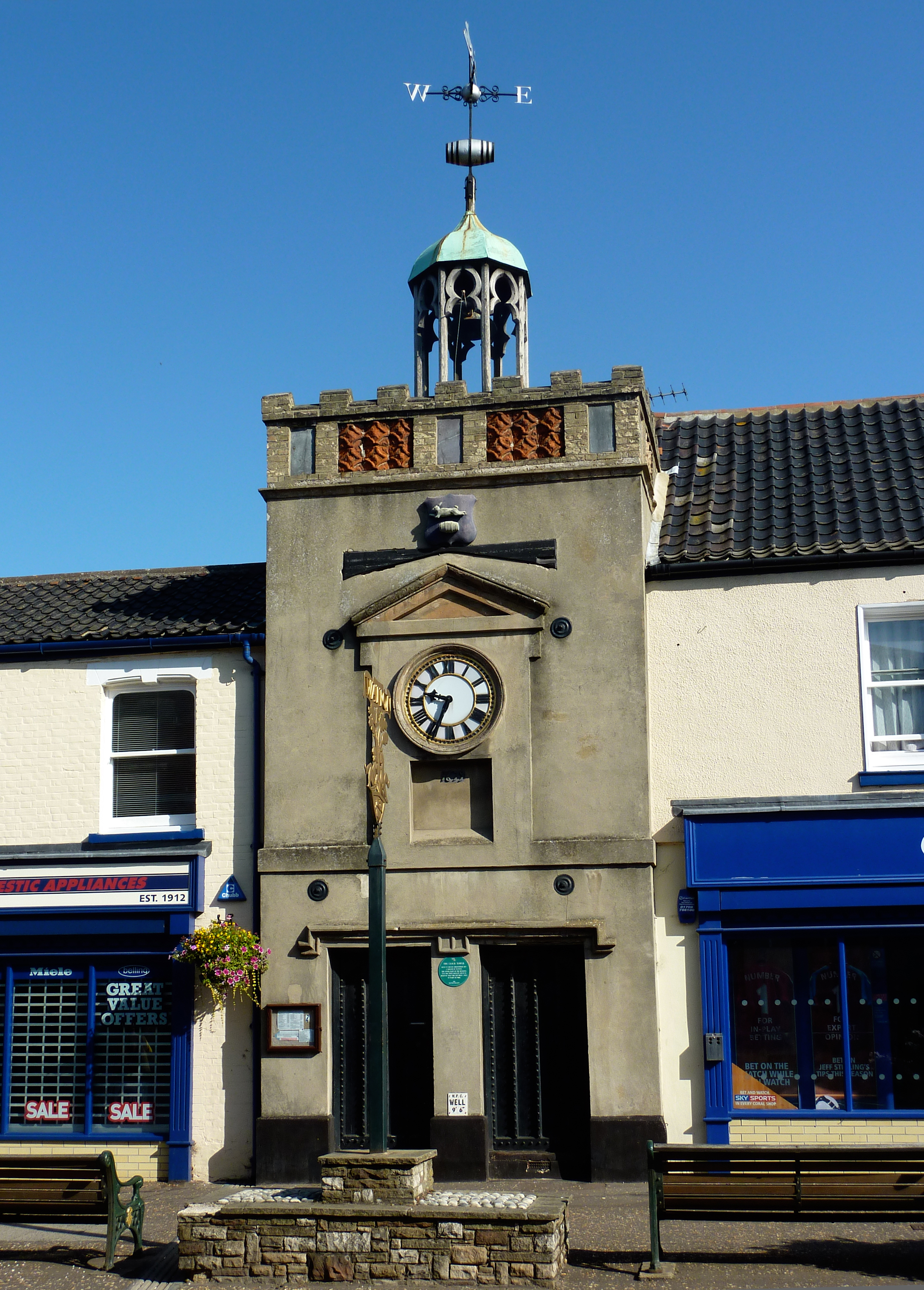 The old Clock Tower in Watton, Norfolk, England. The tower was built in 1679 to hold a fire warning bell following the 'Great Fire of Watton' that destroyed more than sixty properties in 1674. This early warning bell, known as 'Ting-Tang' sits in an ornate cupola on top of the tower.